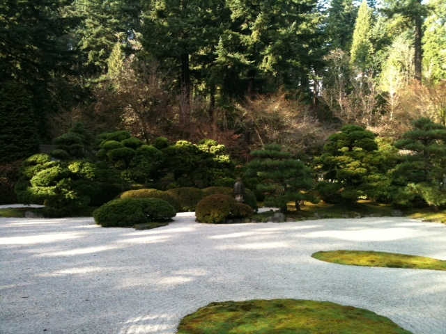 Flat Garden at the Portland Japanese Garden